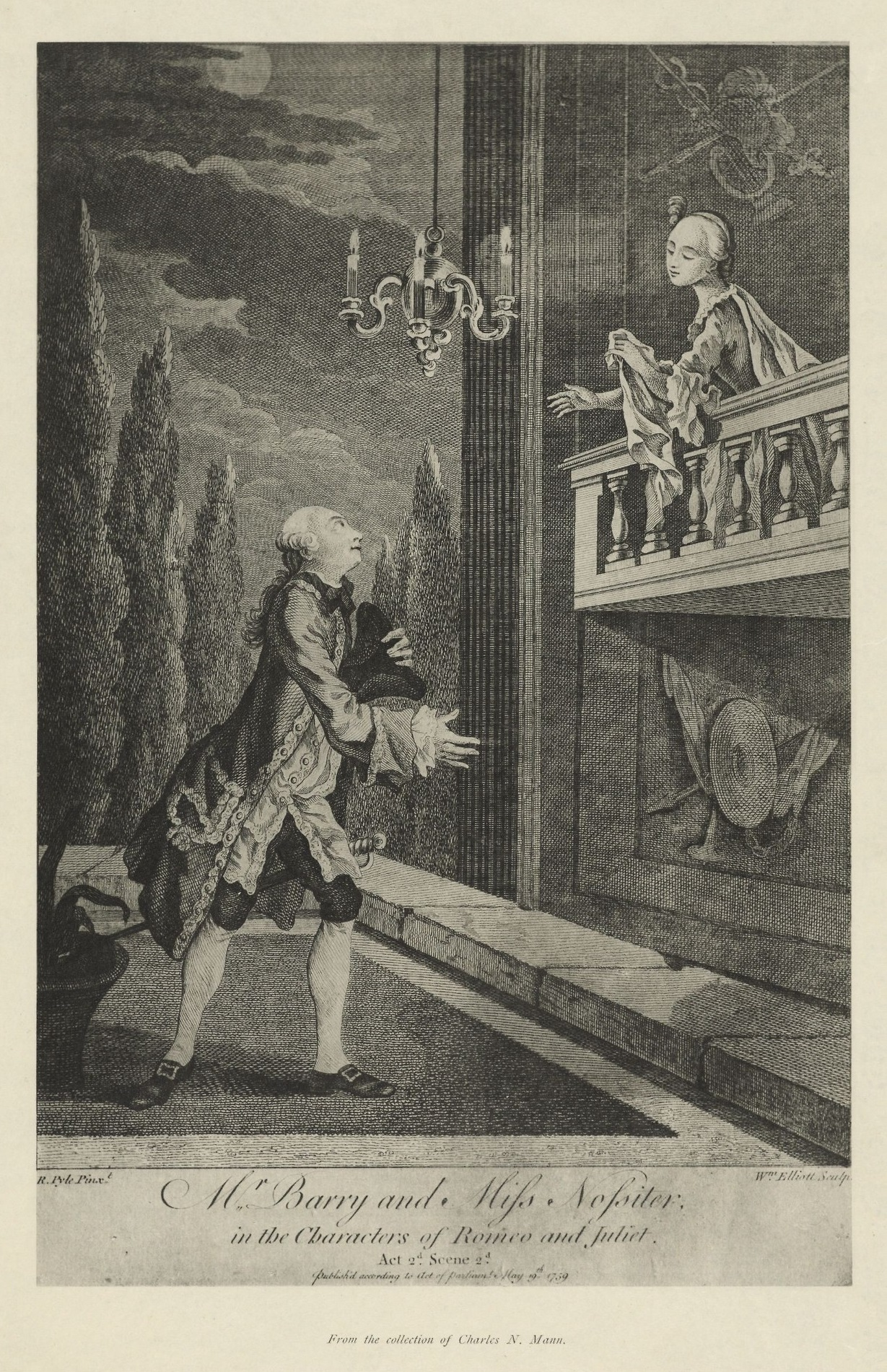 Engraving of Spranger Barry and Maria Isabella Nossiter performing Romeo and Juliet. Similar image dates engraving to 1759. Theatrical Portrait Prints (Visual Works) (TCS 43). Harvard Theatre Collection, Houghton Library, Harvard University.